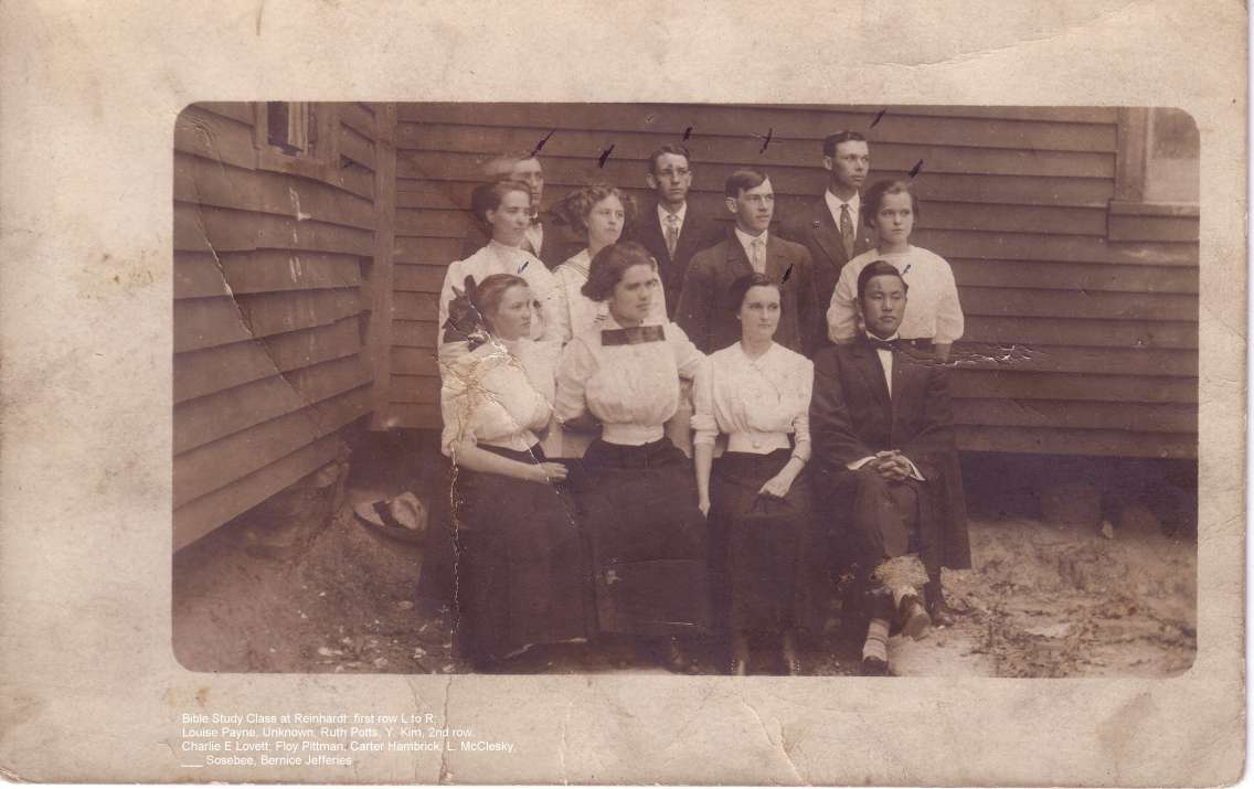 Early Reinhardt College Bible study class (c. 1913). This image is to depict what Reinhardt's early organizations looked like in the early 20th century; this campus has lost much of its historical images due to fire; examples of this nature are extremely rare.